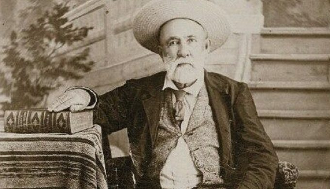 Photograph of Phantly Roy Bean, Jr. (c. 1825 – March 16, 1903) was an eccentric U.S. saloon-keeper and Justice of the Peace in Val Verde County, Texas